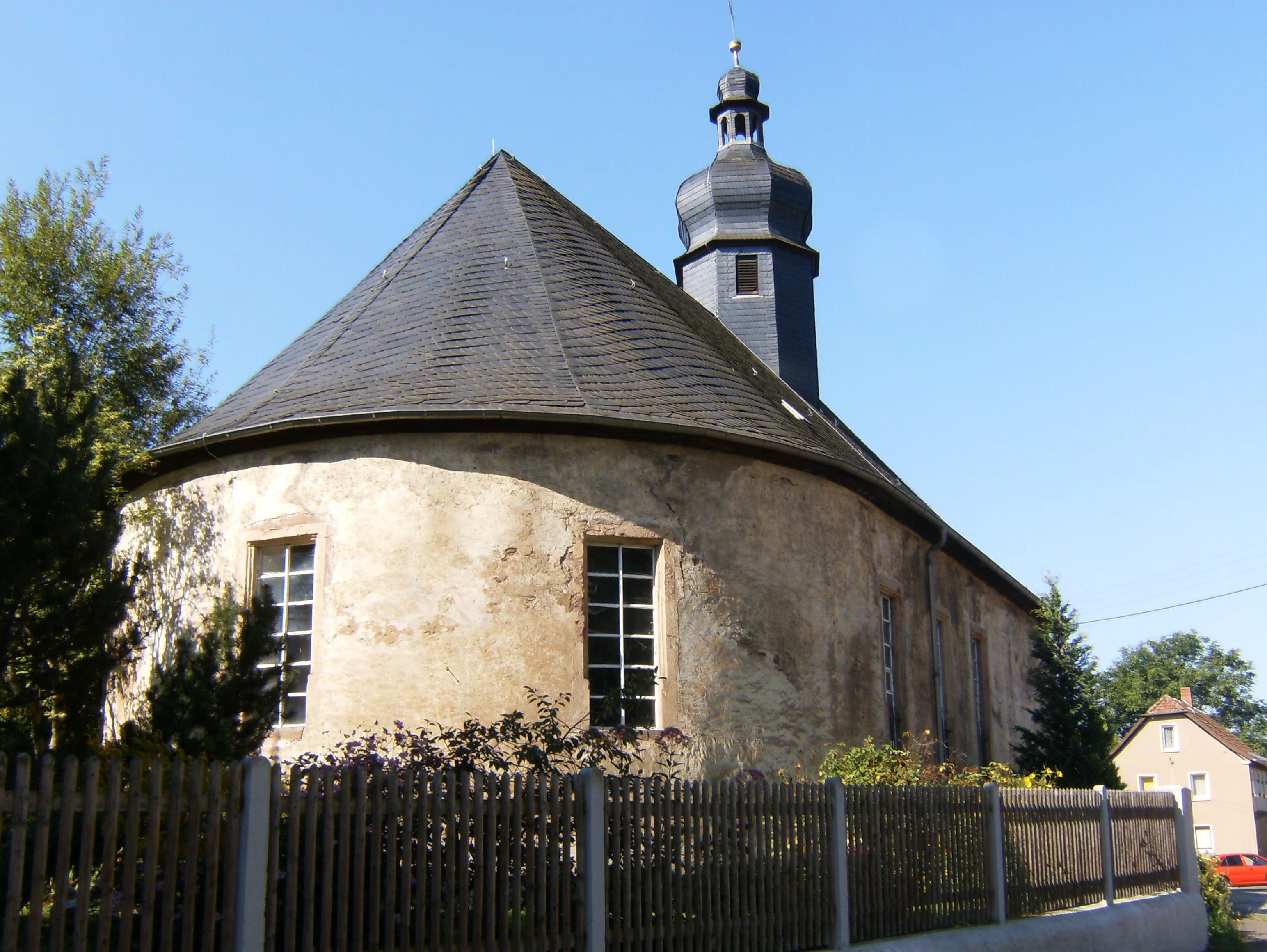 Liebschwitz church.